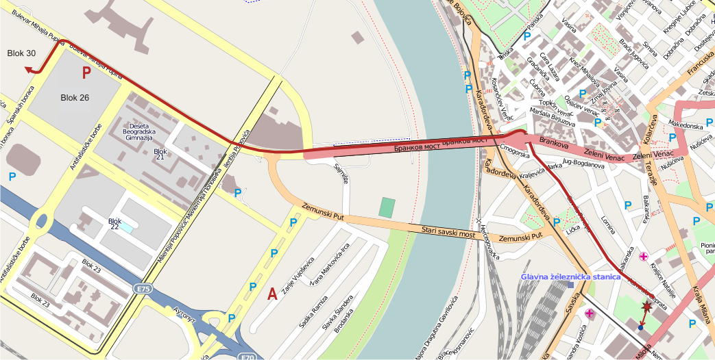 Getaway route of assassins of Serbian Prime Minister Zoran Đinđić, immediately after the assassination.A – the spot where Volkswagen Passat, which was used in the getaway, was incinerated.P – the spot where the assassin rifle was hidden, the next day.